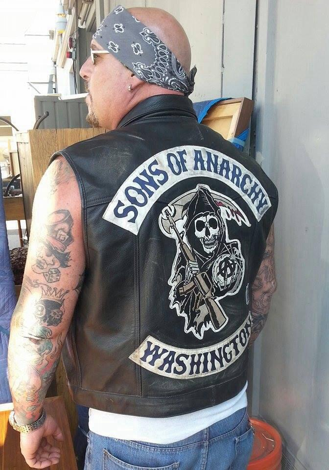 I took this photo of Gallo on the set of Sons of Anarchy